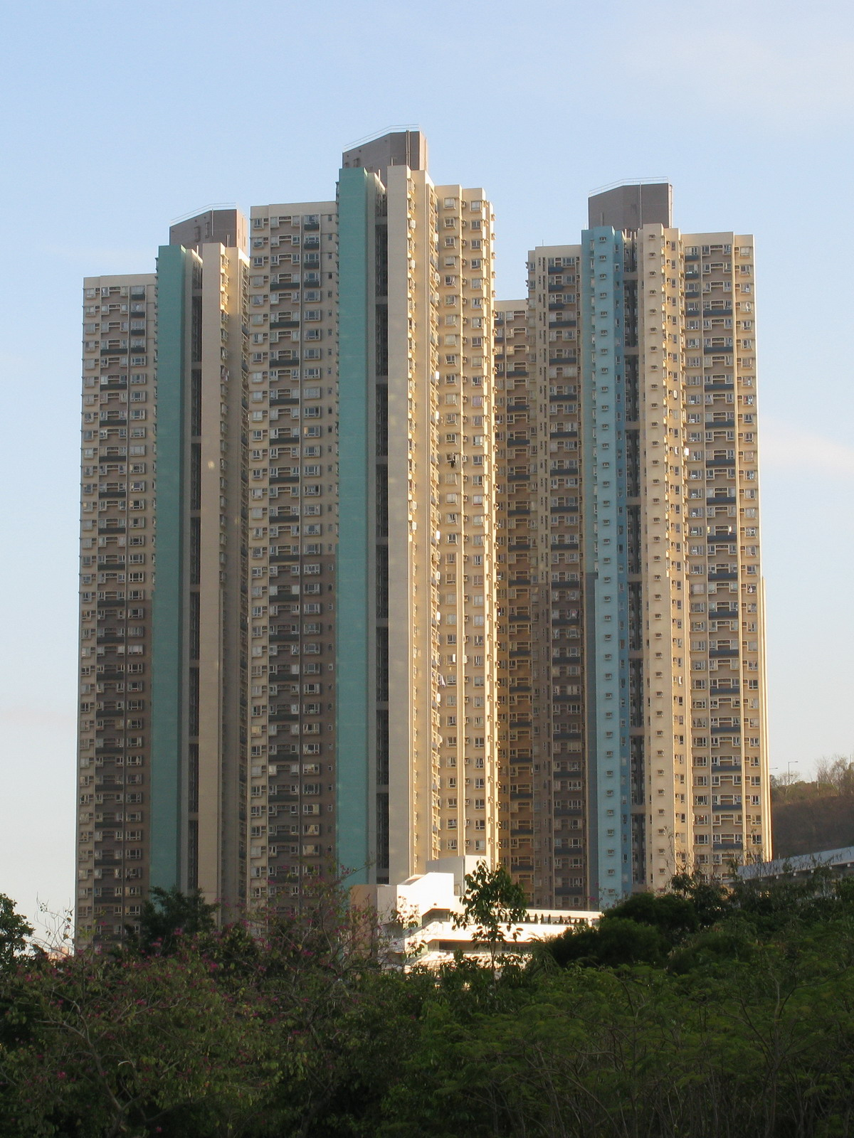 寶林 怡心園 Serenity Place, Po Lam